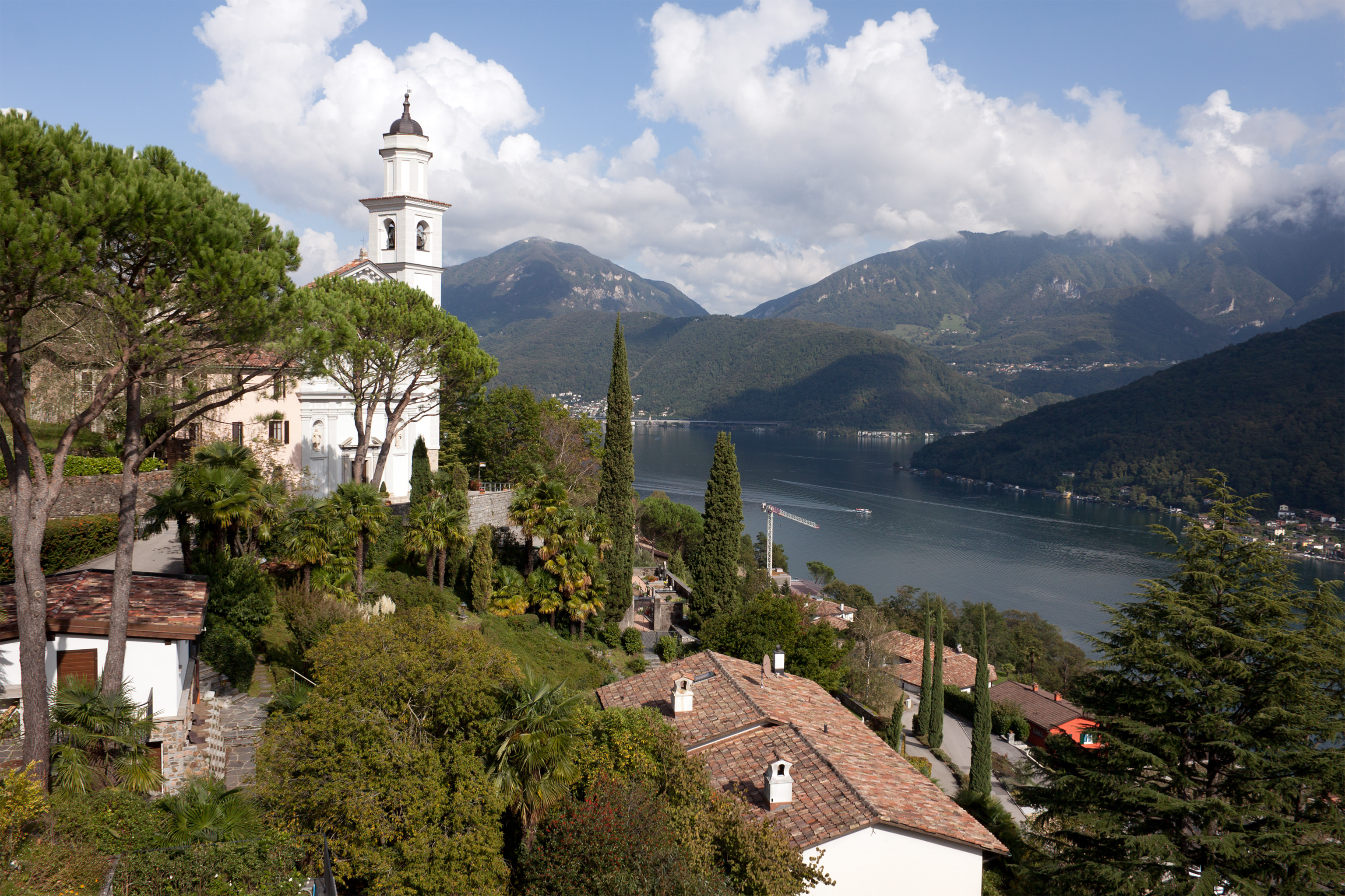 Vico Morcote, Switzerland - View